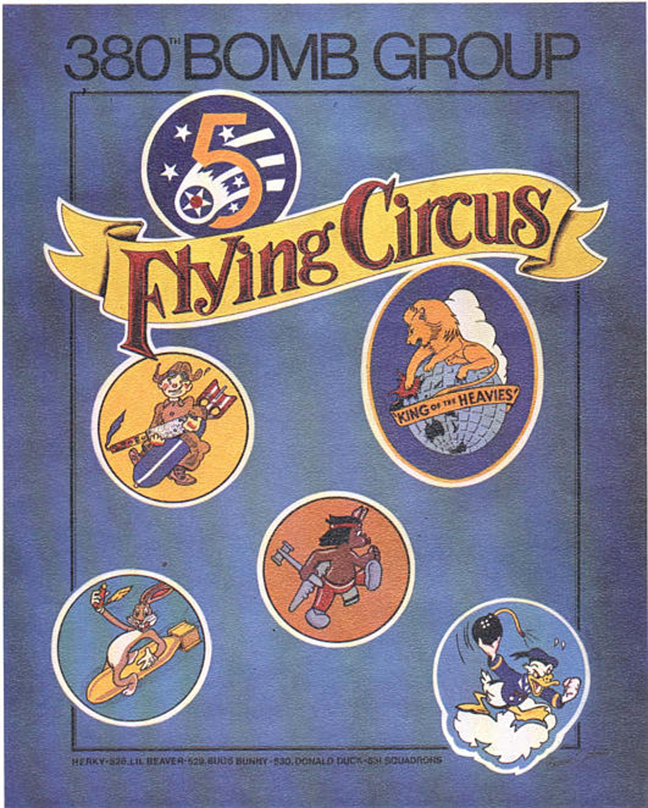 USAAF 380th Bombardment Group Logo